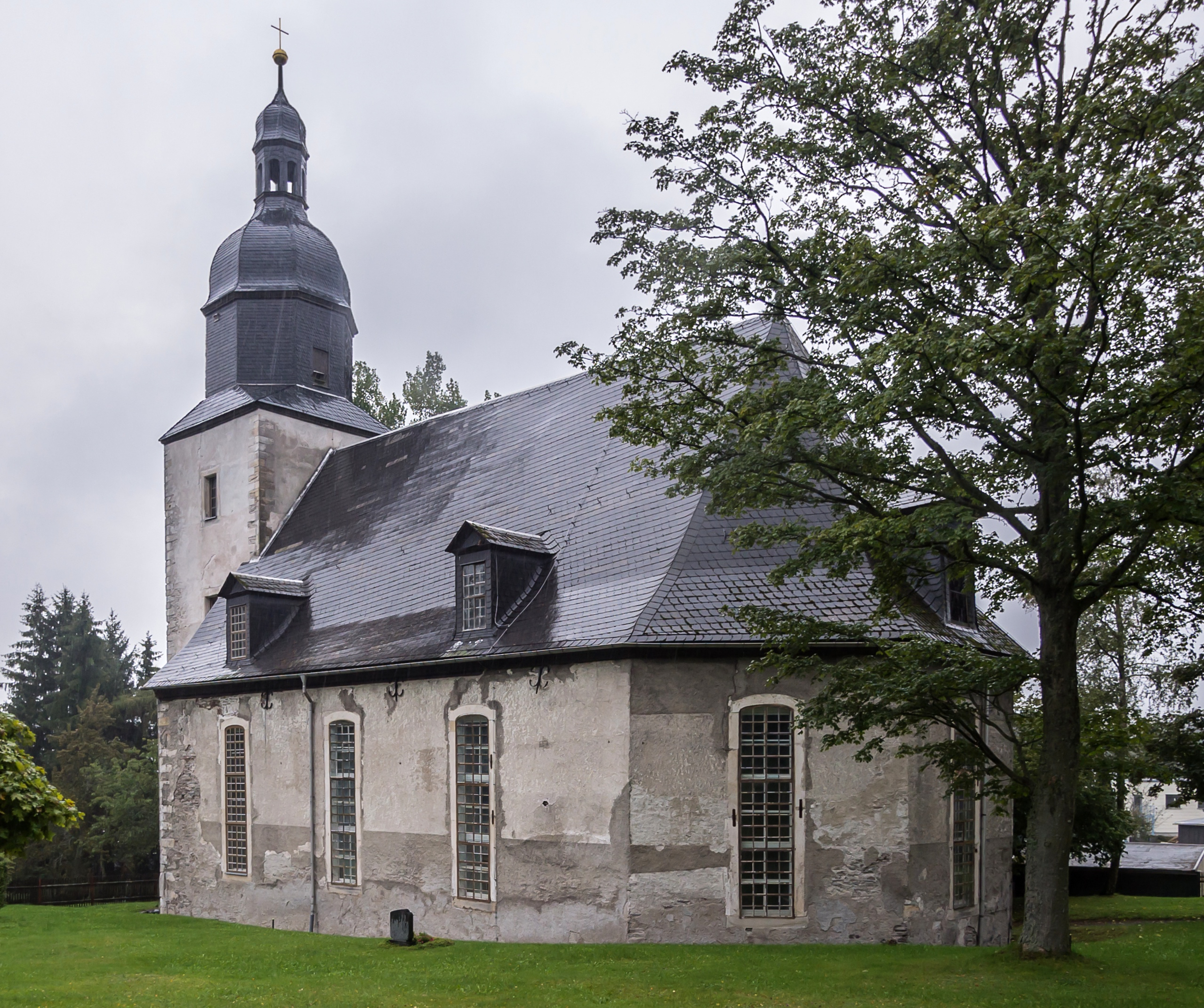 Dorfkirche Meuselbach-Schwarzmühle